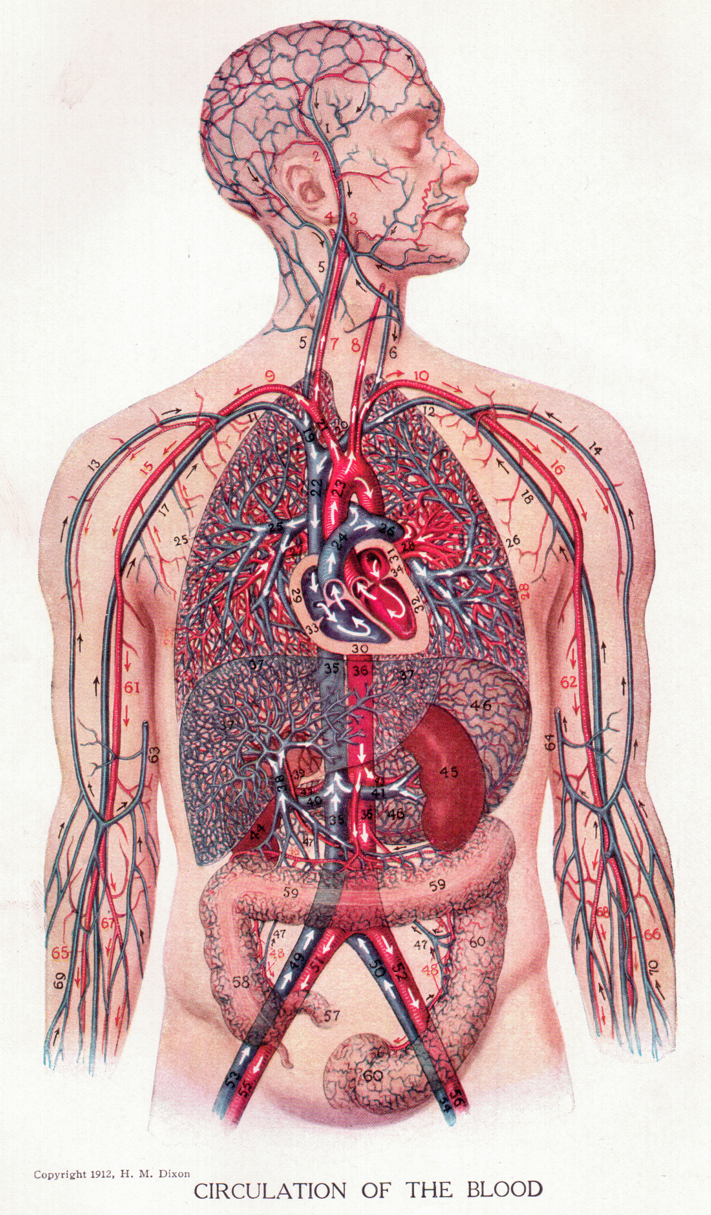 This illustration is from "The Home and School Reference Work, Volume II" by The Home and School Education Society, H. M. Dixon, President and Managing Editor. The book was published in 1917 by The Home and School Education Society. Flickr data on 2011-08-23: Tags: 1917, book, The Home and School Reference Work, copyright free, creative commons, flickr, free, freebie License: CC BY 2.0 User: perpetualplum Sue Clark